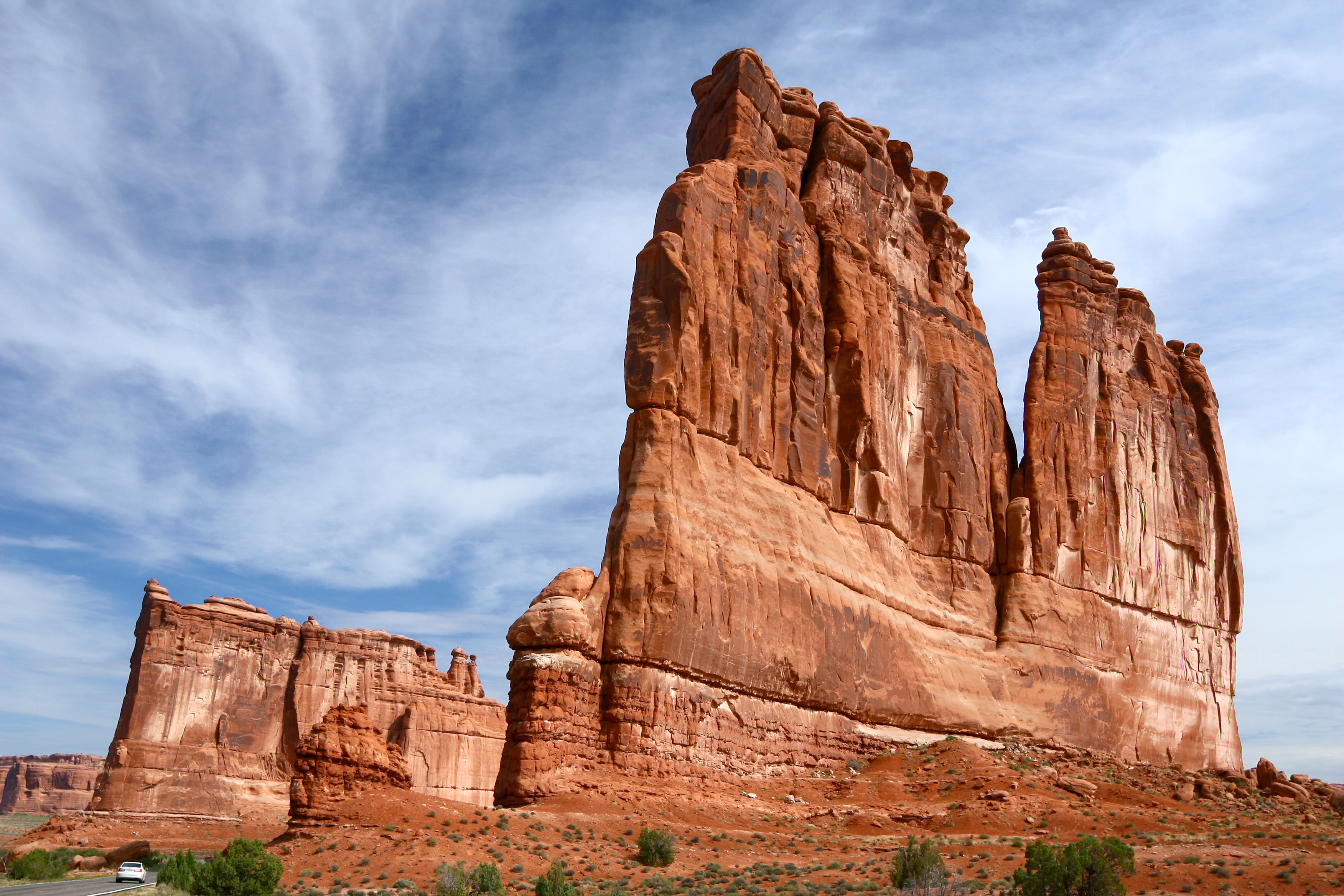 The Organ is an impressive sandstone fin located at Arches National Park, Utah, USA.